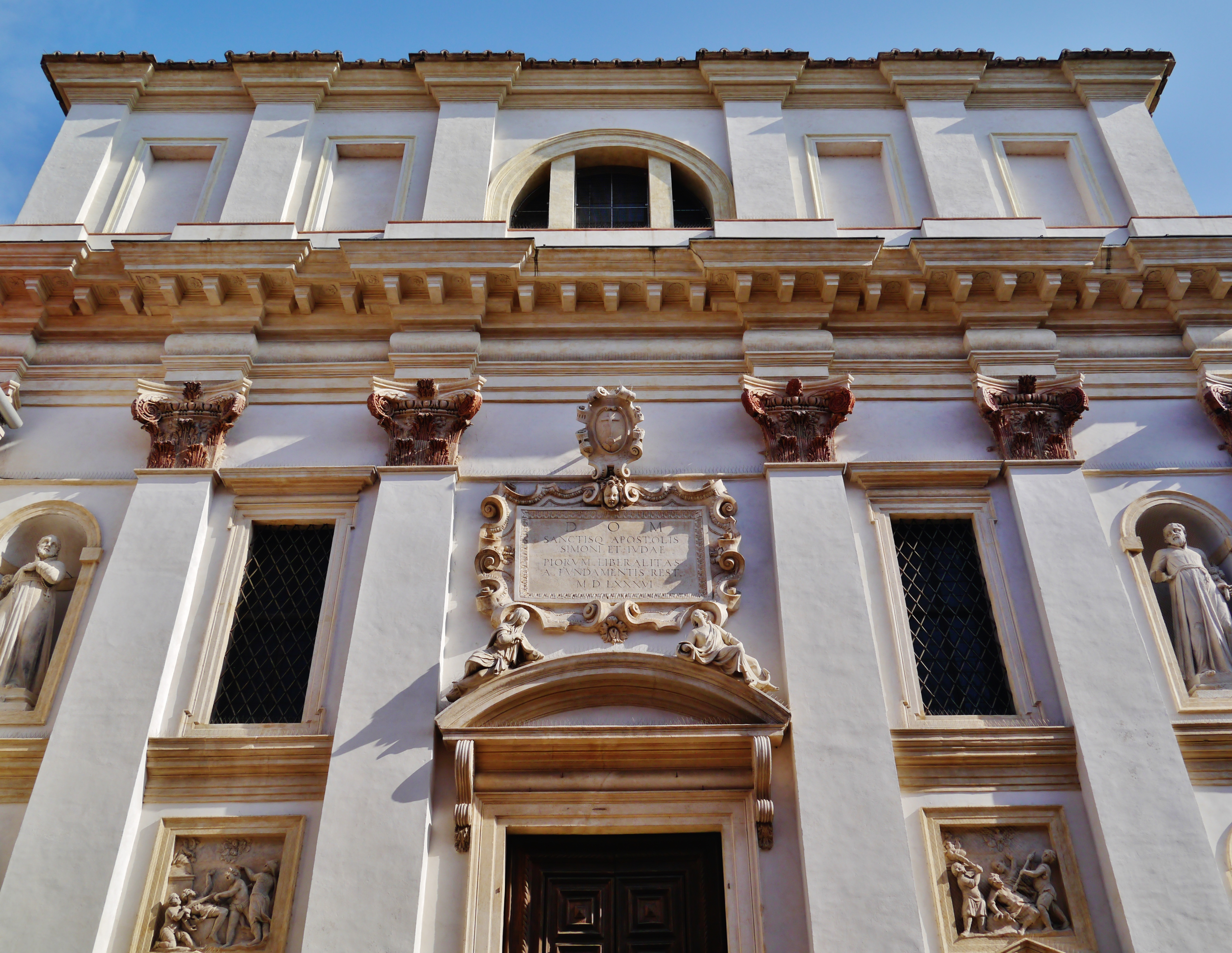 Facade of the Church of Sts. Simon the Zealot & Jude the Apostle (combined San Gaetano), Padua, Province of Padua, Region of Veneto, Italy